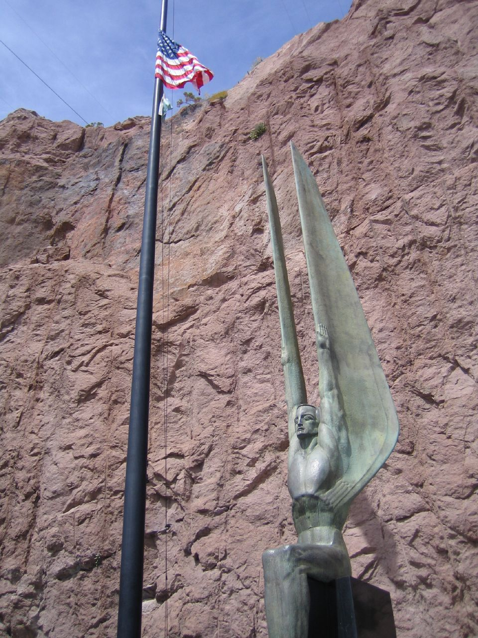 A statue near the Hoover Dam. Note the flag at half-mast for the death of the Pope.